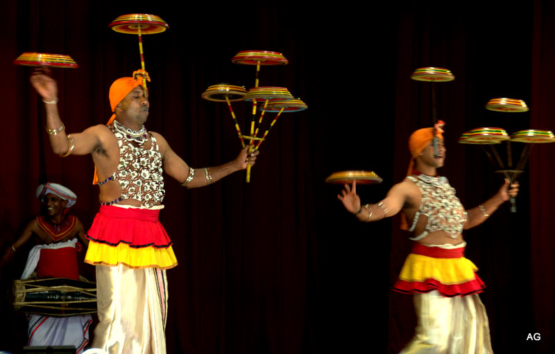 Traditional Sri Lankan Raban Dance performed in Kandy